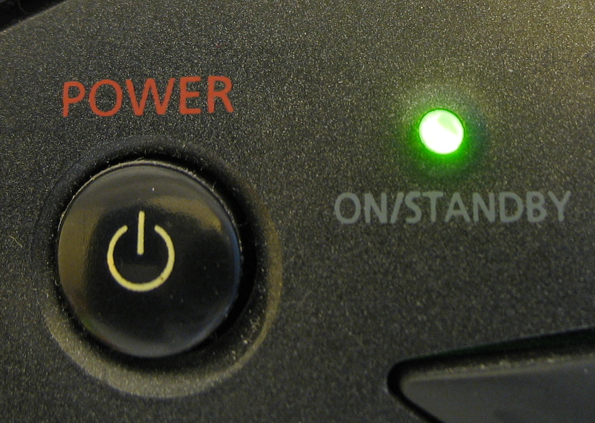 Power button and standby light indicator